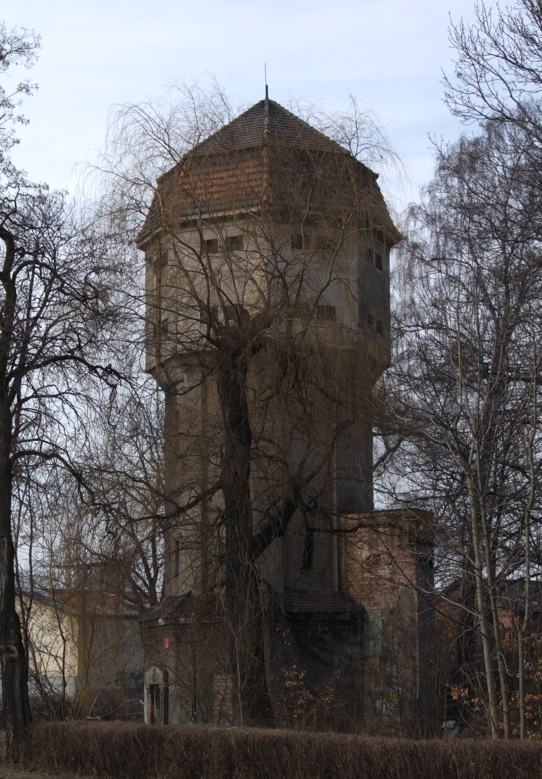 Water tower in Orzesze (Orzesche), Upper Silesia (Poland)Ślůnski: Wodno wjeża we Uorzeszu